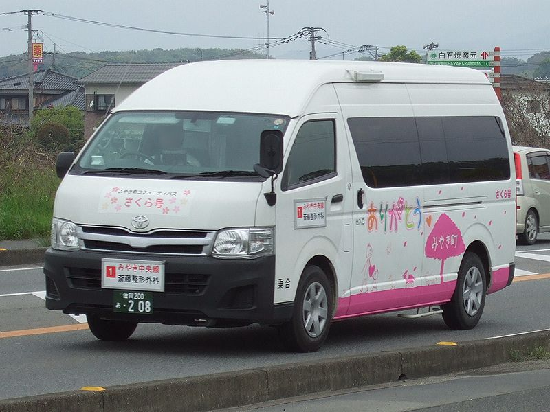 Miyaki Town Community Bus Cosmos-go